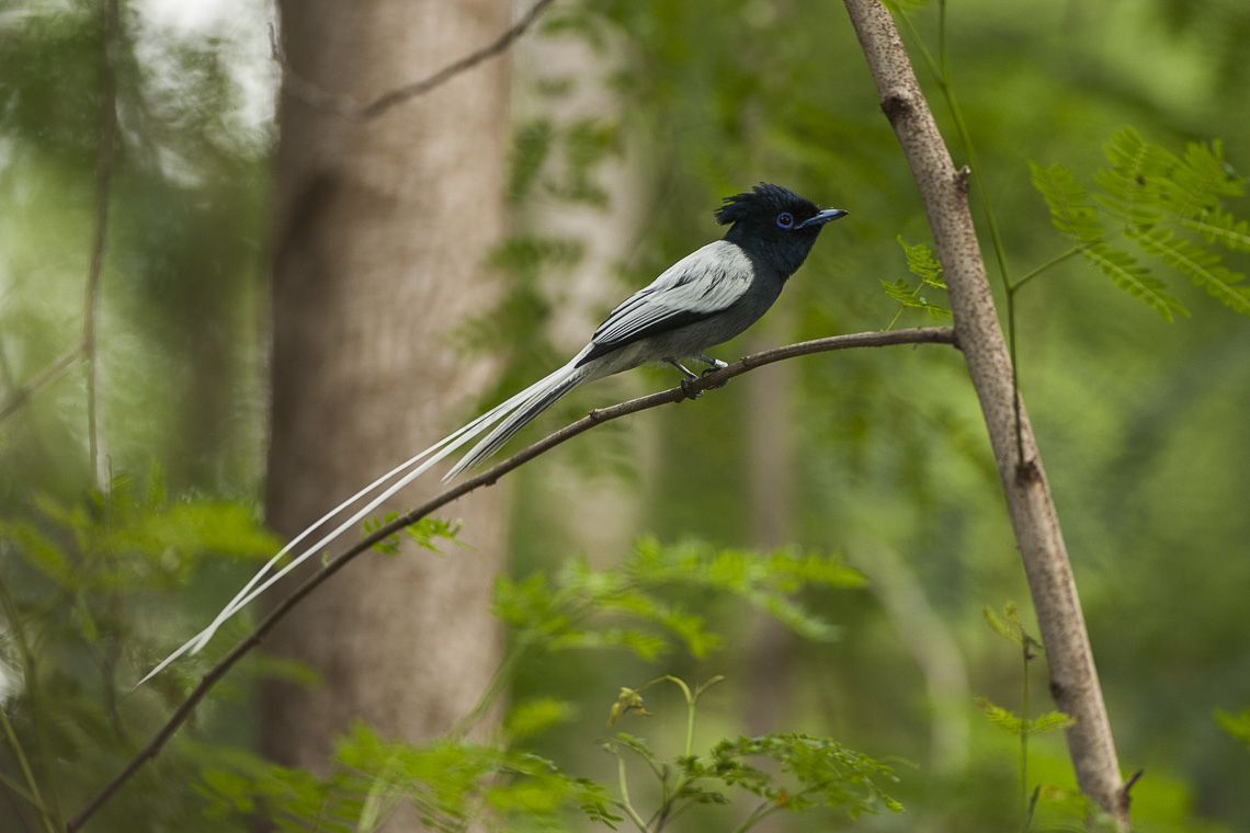 African Paradise Flycatcher - Kenya_NH8O0536